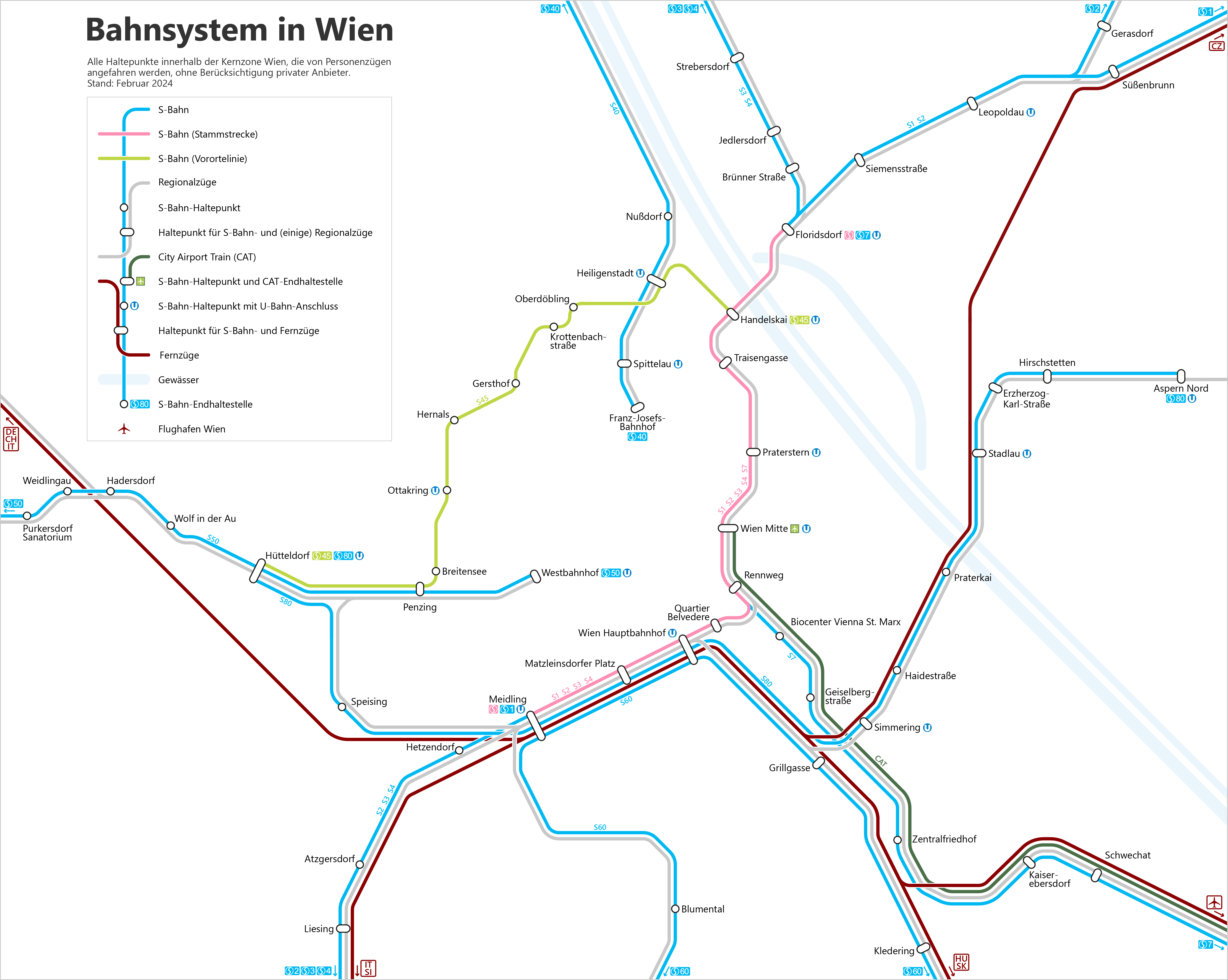 The map shows schematically the route of the S-Bahn and regional and long-distance trains within Vienna and the associated train stations. S-Bahn (S1, S2, S3, S4, S7, S40, S50, S60, S80) S-Bahn (line bundle of S1, S2, S3, S4, S7) S-Bahn (S45) Regional trains (R, REX, CJX) Long-distance trains (D, IC, EC, RJ, RJX, ICE, NJ, EN) City Airport Train (CAT)